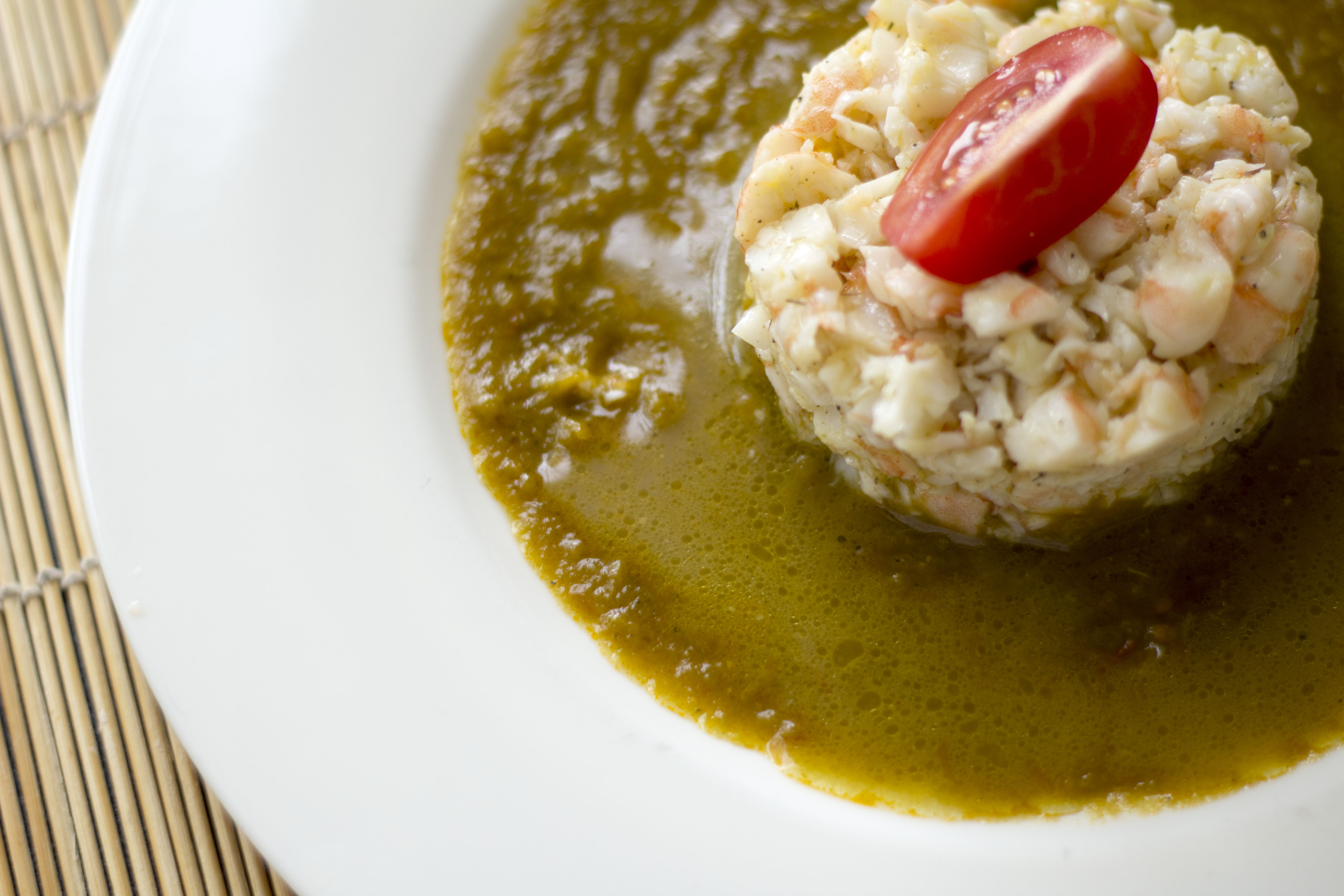 Shrimp tartar on friggitelli cream (Recipe in italian with translation available: )